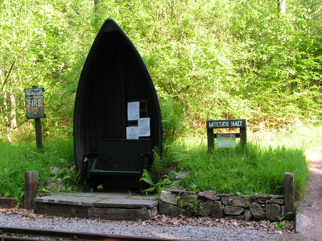 Miteside Halt This is the third boat to be used at this station.